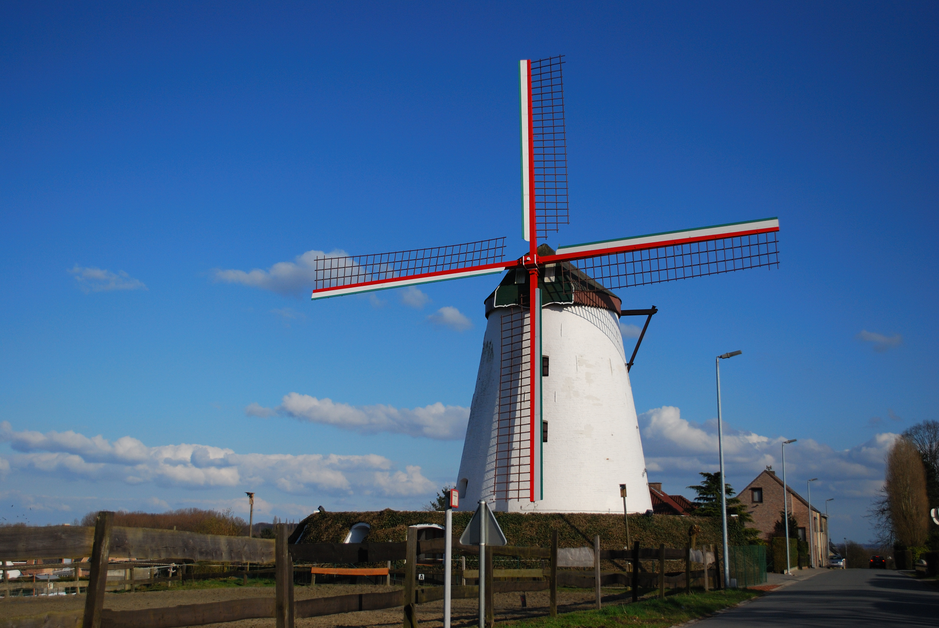 Restored windmill known as "the old mill" (Oude Molen) at the Village of Hekelgem, commune of Affligem, Belgium. Nikon D60 f=28mm f/4.5 at 1/2500s ISO 200.